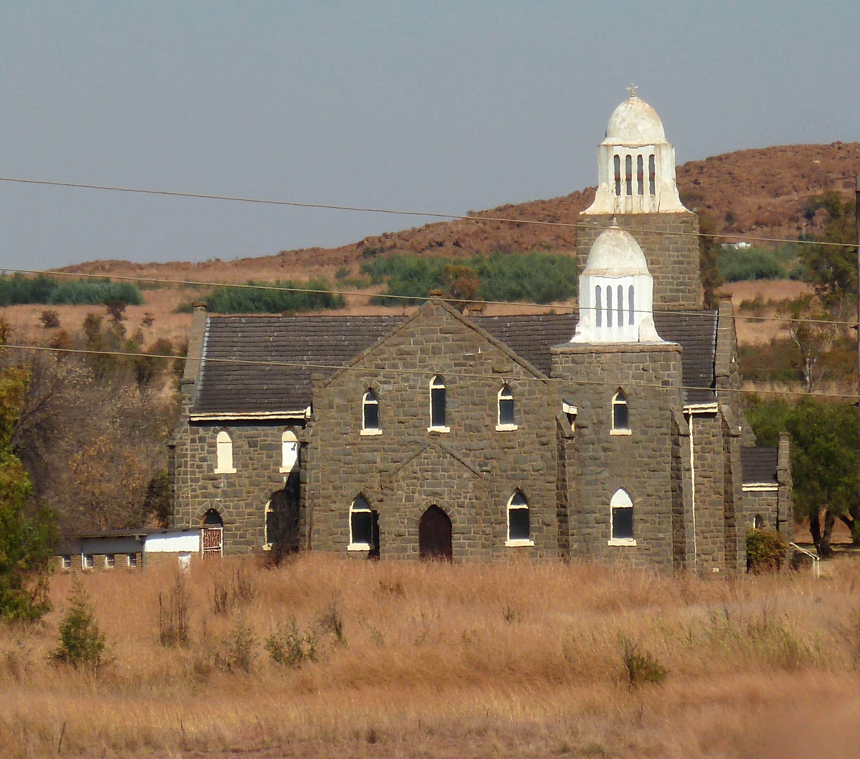 NG-klipkerk te Laersdrif, Limpopo